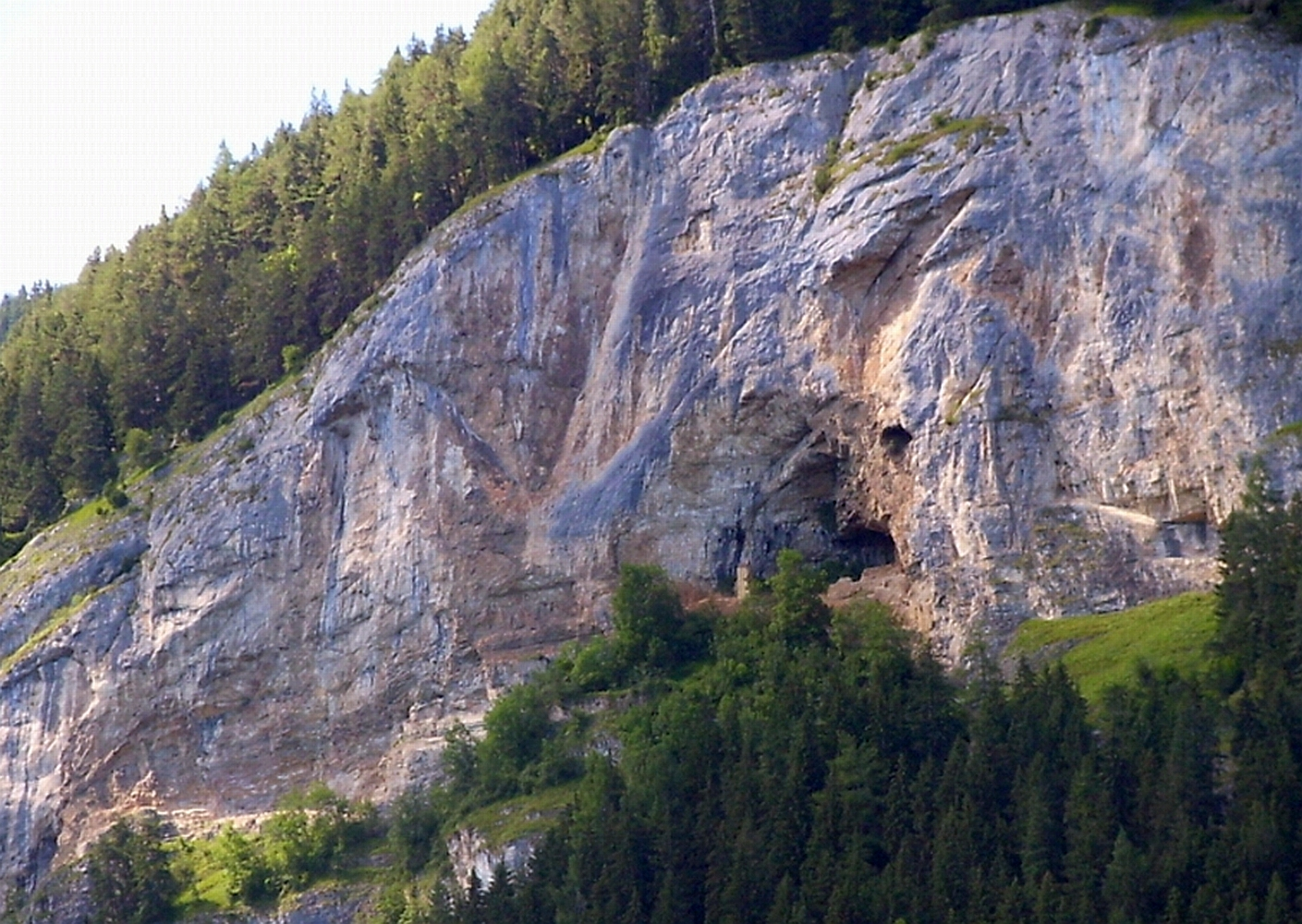 Puxer Hole cave-castle-ruin, Frojach Rottenmanner und Wölzer Tauern.